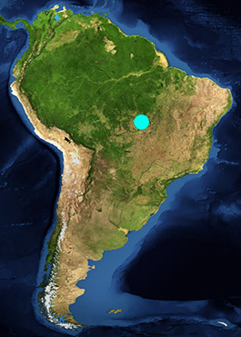 This map shows the location of the Upper Xingu region (blue dot) in the South American continent. The Upper Xingu is home to numerous indigenous groups, including the Wauja (Waurá), who speak an Arawakan language. I, Emi-Ireland, created the image using NASA Blue Marble imagery for the satellite image, and Photoshop to add the marker identifying the Upper Xingu.